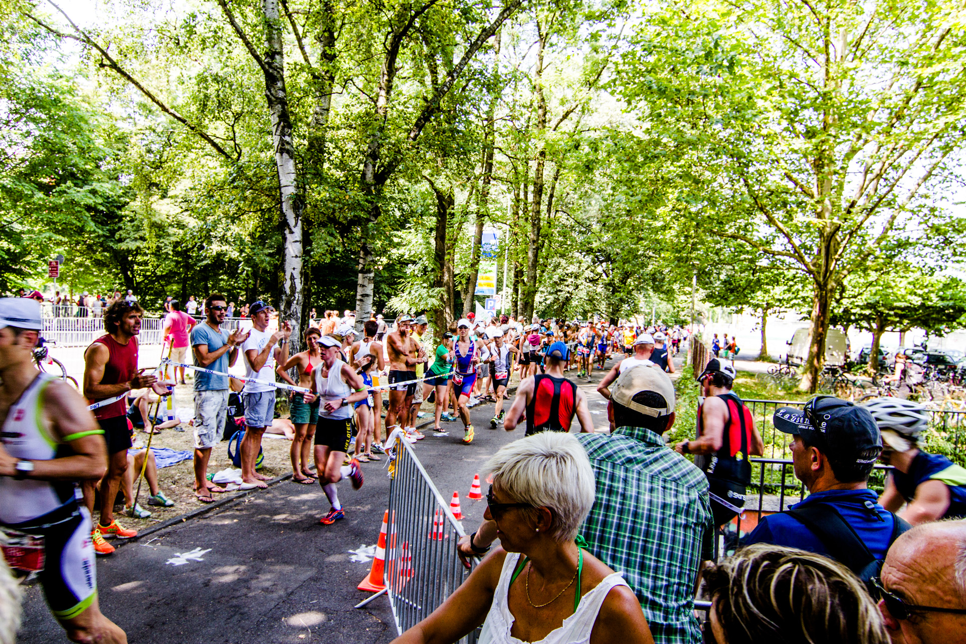 Run Course at Ironman Switzerland 2013